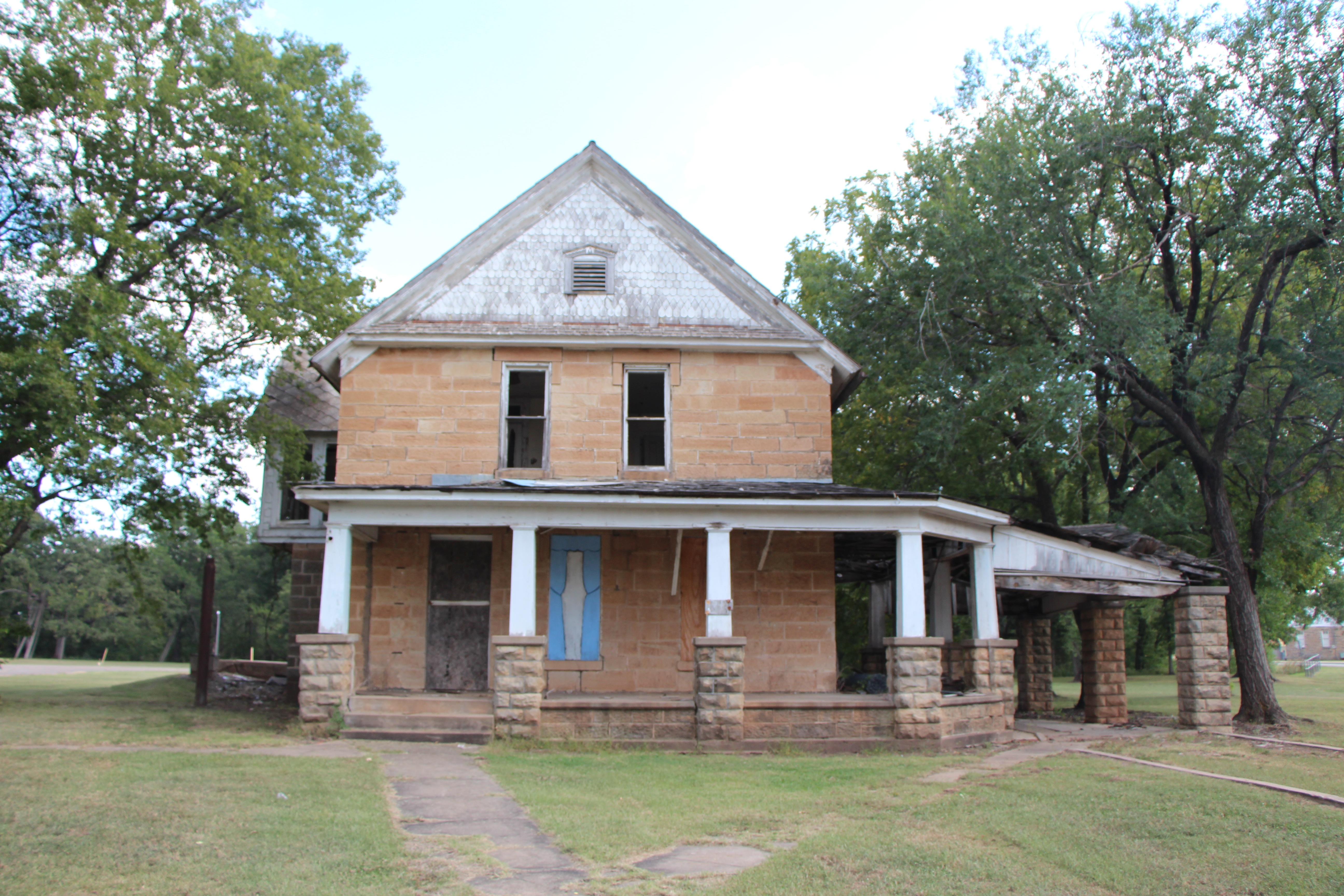 Superintendent's House north side